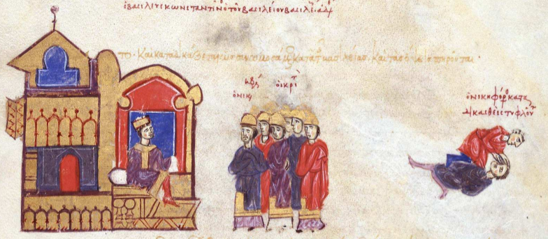 Emperor Constantine VIII (left) orders the blinding of Nikephoros Komnenos (right), governor of Vaspurakan, on suspicion of conspiring against him. Fol. 197v of the Madrid Skylitzes